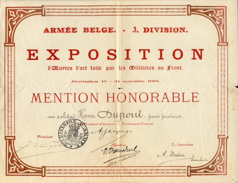 Certificate about the participation of soldier Henri Dupont in an art exposition organized by the Belgian Army in 1916